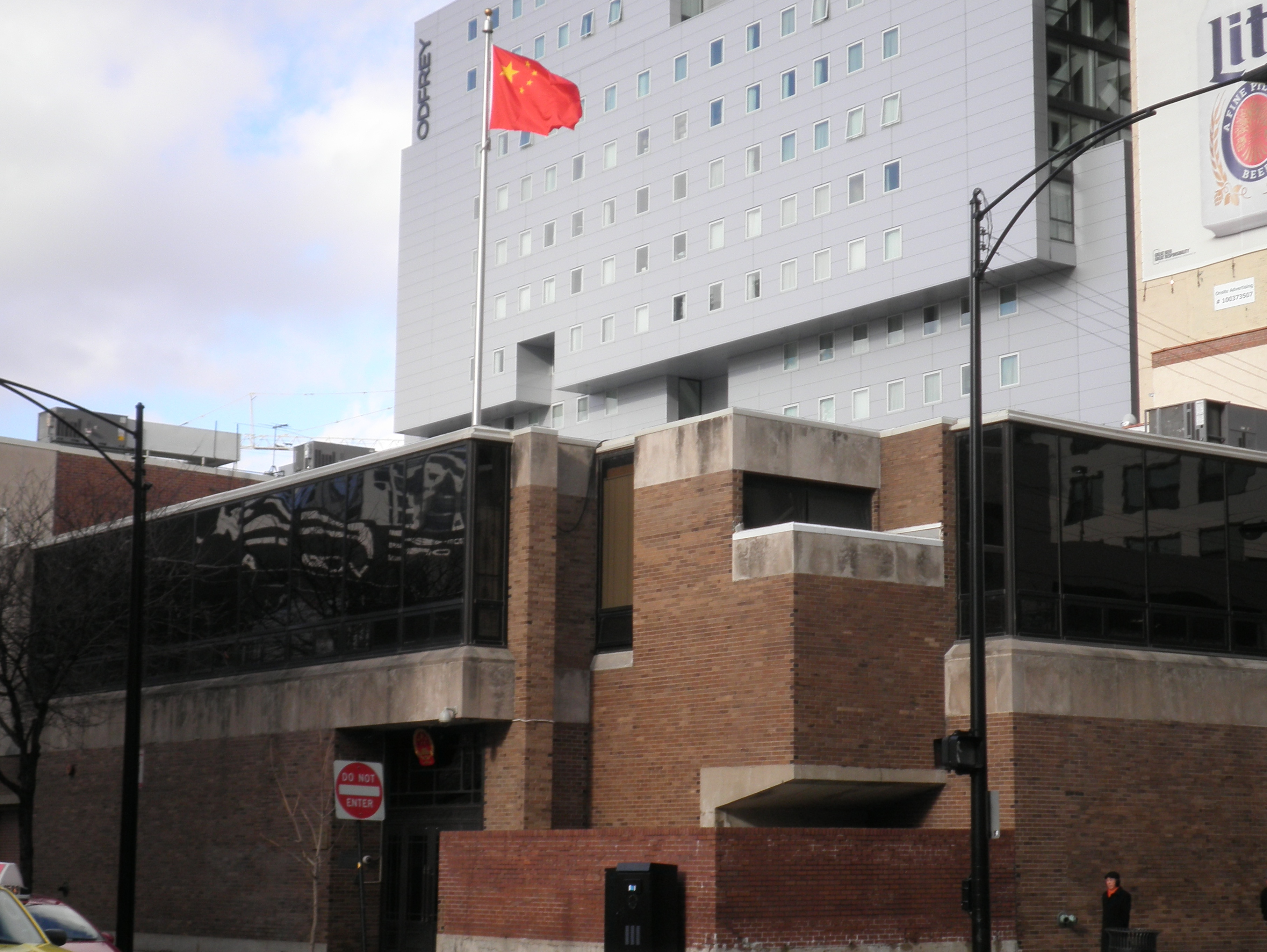 Chinese Consulate Chicago